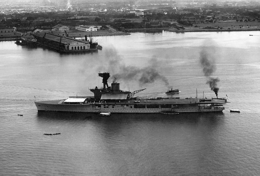 The British carrier HMS Hermes (95), the first ship laid down as an aircraft carrier, pictured in Honolulu, Territory of Hawaii.